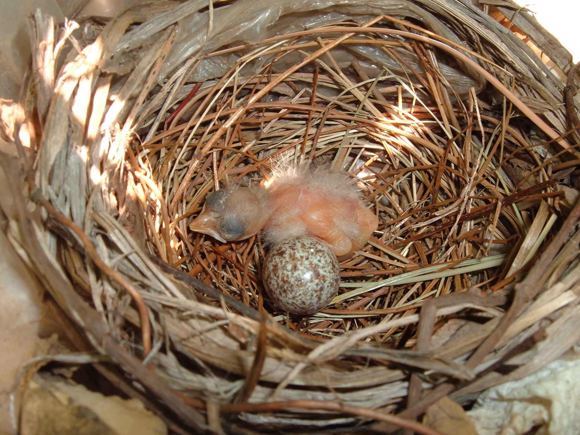 Newborn Northern Cardinal.